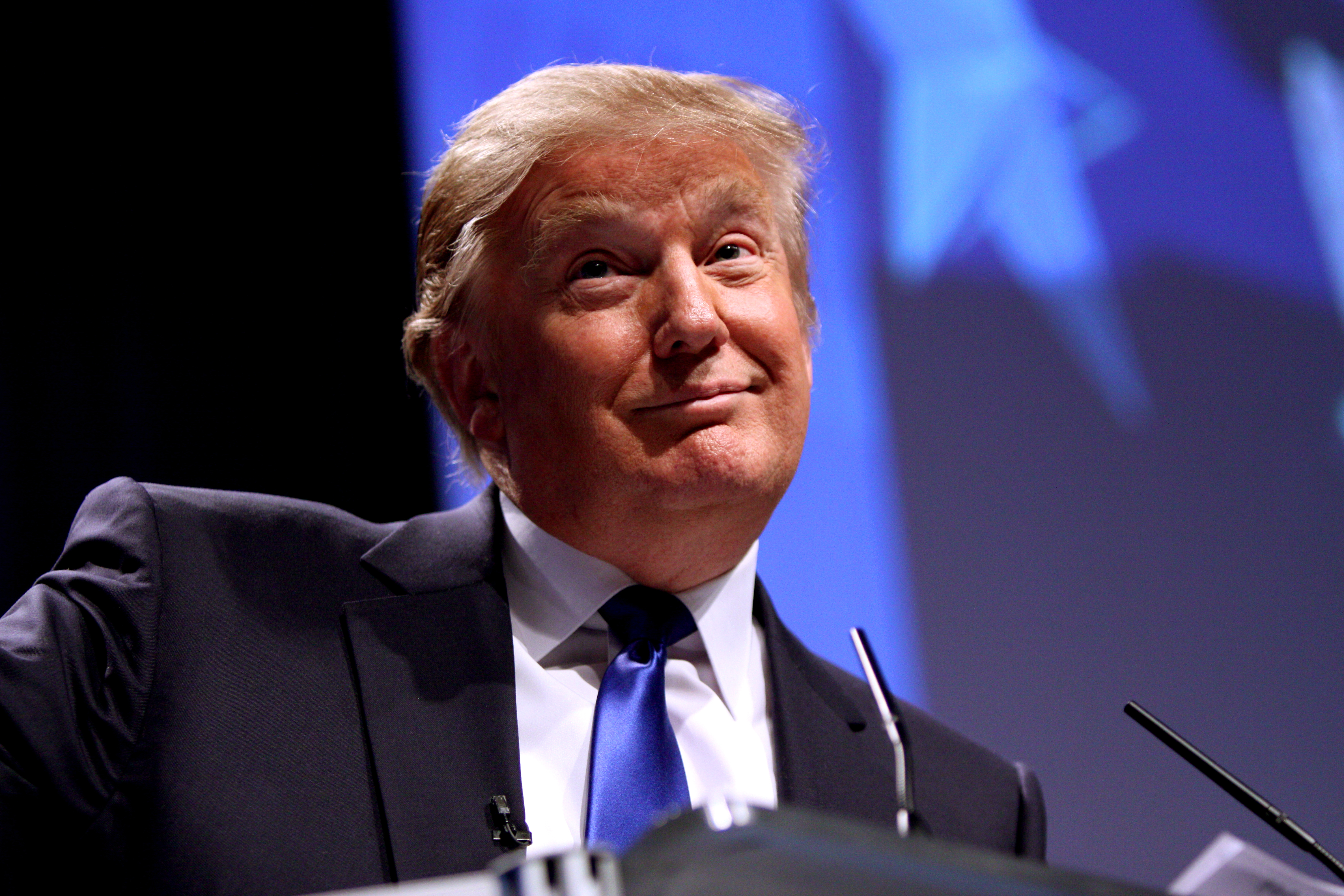 Donald Trump speaking at CPAC in Washington D.C. on February 10, 2011.